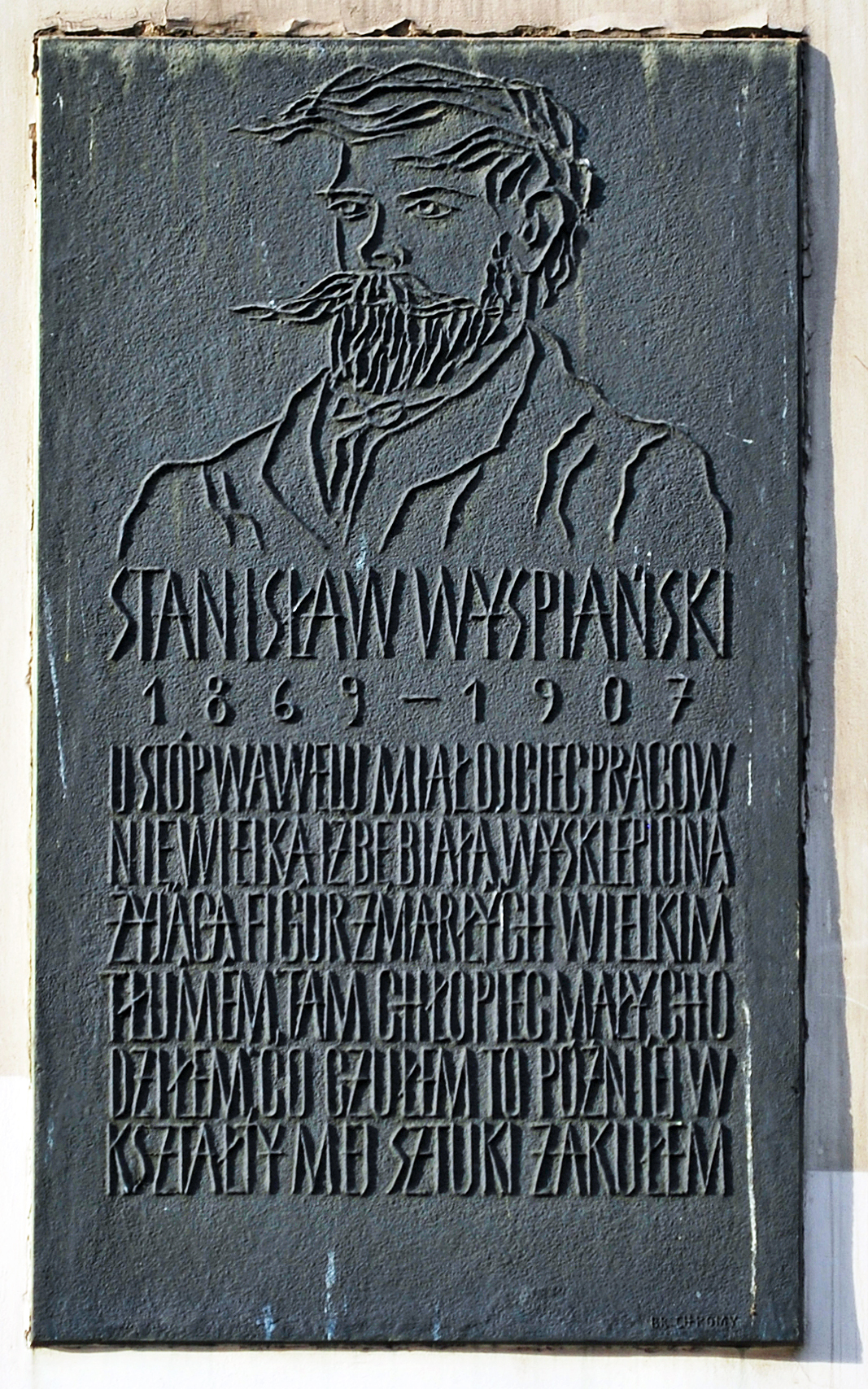 Commemorative plaque in tribute to Stanisław Wyspiański (Polish playwright, painter and poet), Jan Długosz House, 25 Kanonicza street, Old Town, Krakow, Poland